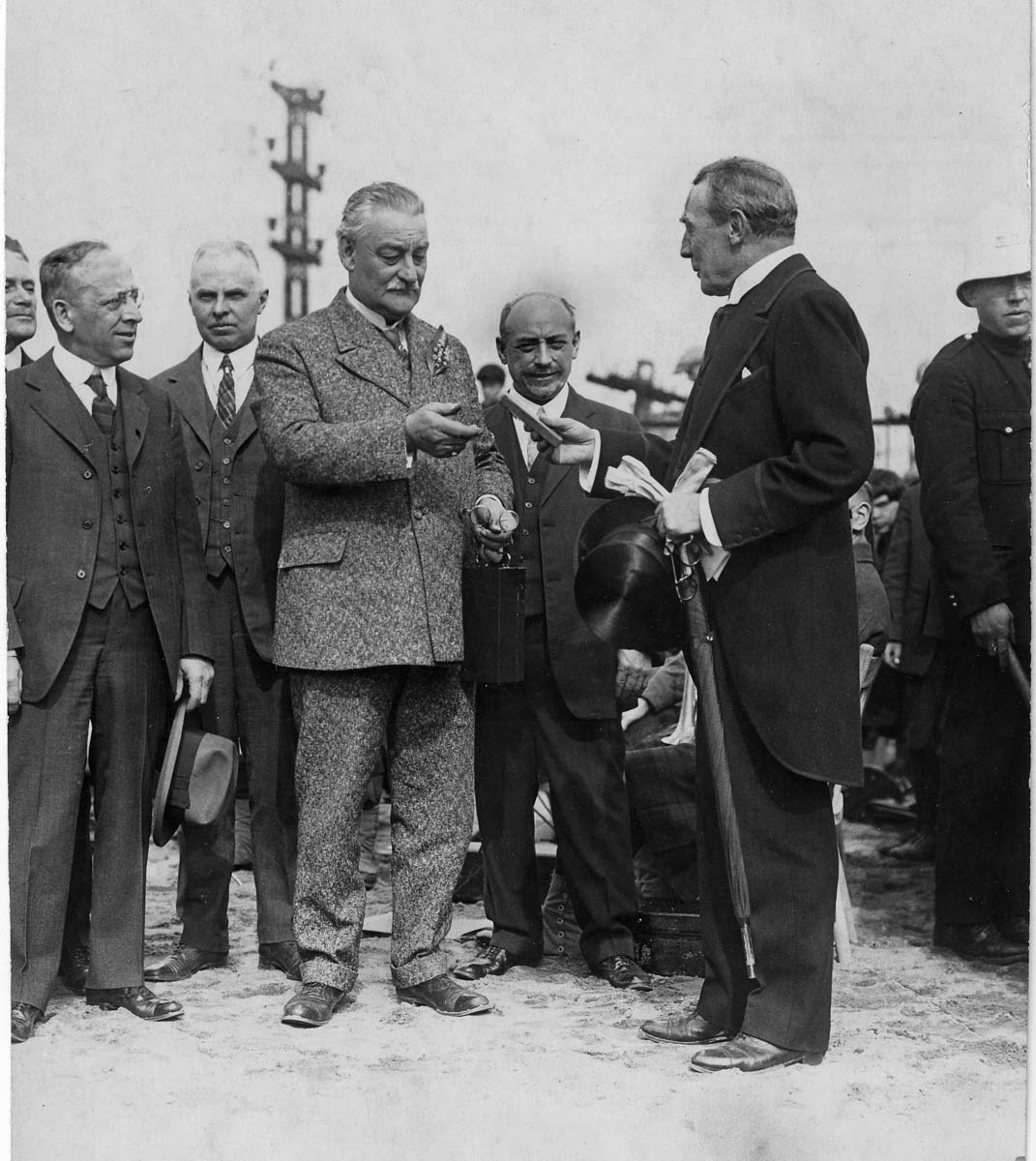 Mayor Médéric Martin (left) of Montreal receiving from Mr. F.E. Meredith, an executor of the Charles Sandwith Campbell estate, the key to the new playground in the East End (formerly Sohmer Park). Mr. Campbell, at his death, left a bequest of $230,000 for the purchase and equipment of children's playgrounds in Montreal. June 19, 1926.